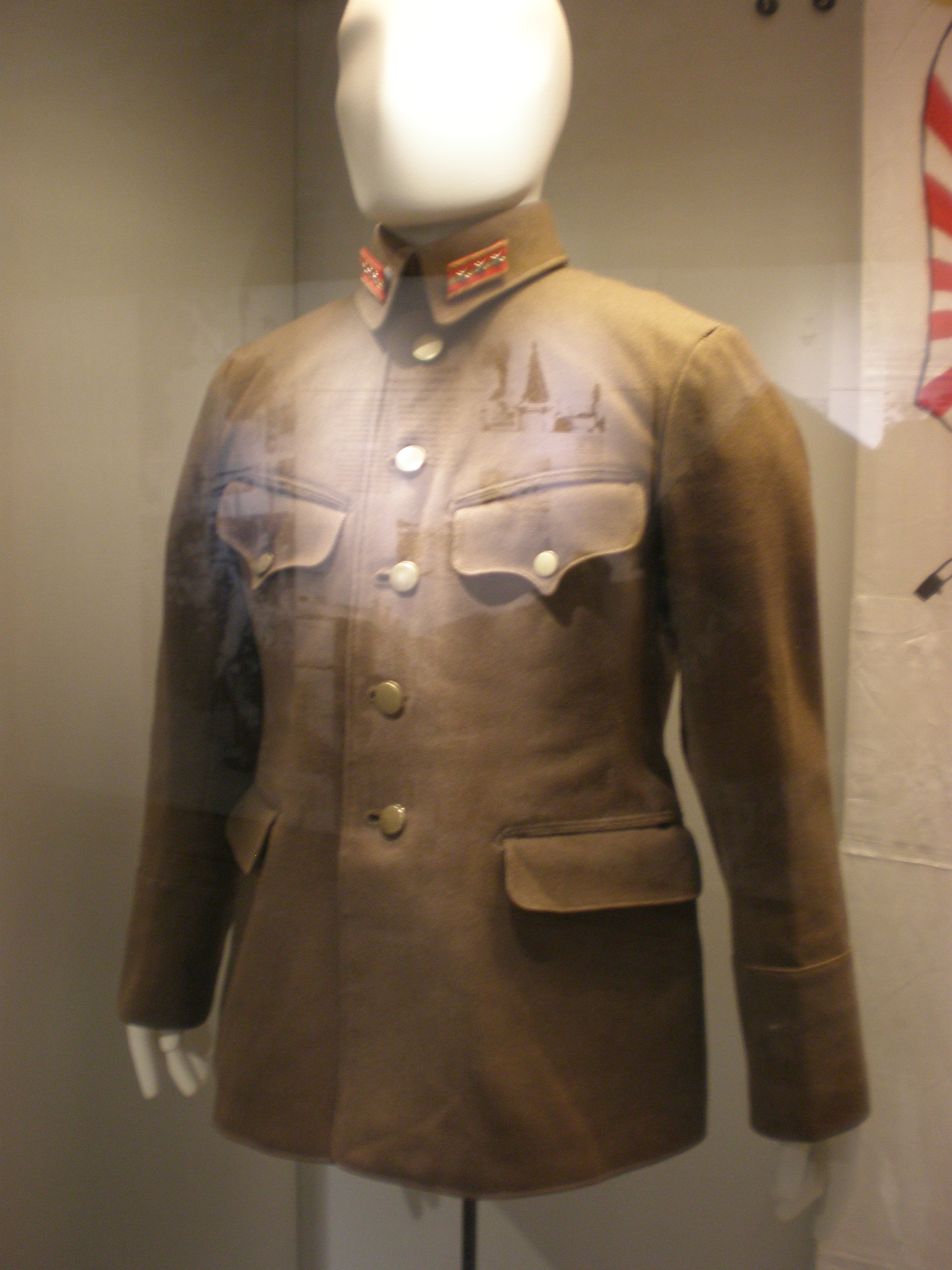 A World War II Imperial Japanese Army captain's uniform on display at the Hong Kong Museum of Coastal Defence.